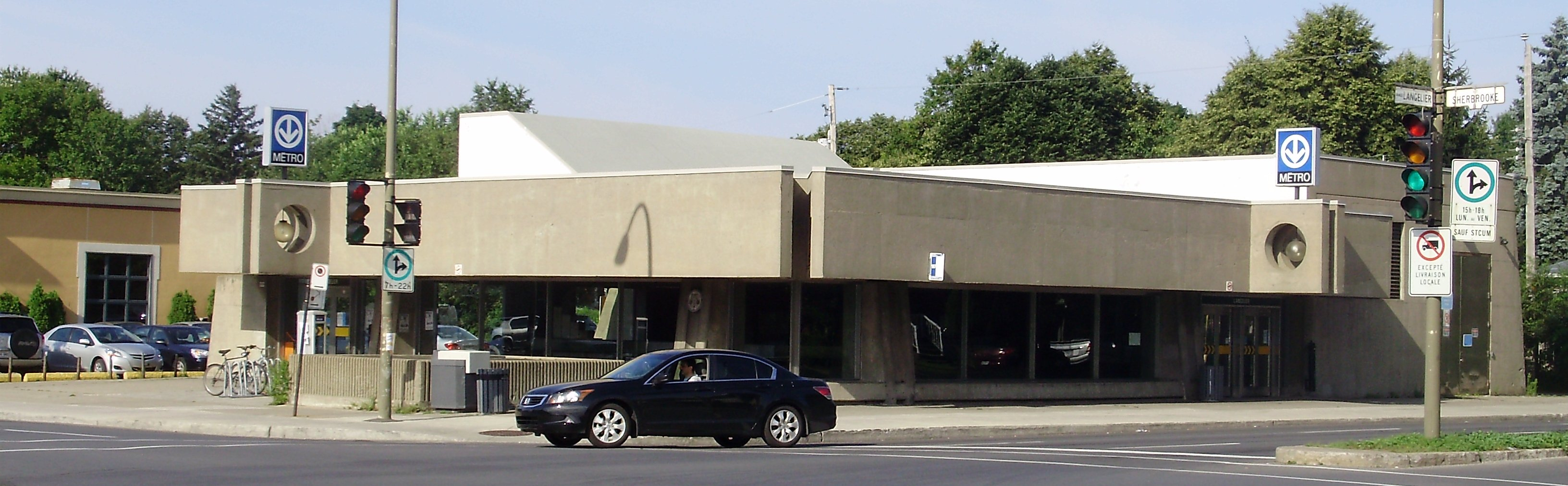 The Société de transport de Montréal's Langelier metro station in Montreal, Quebec, Canada.